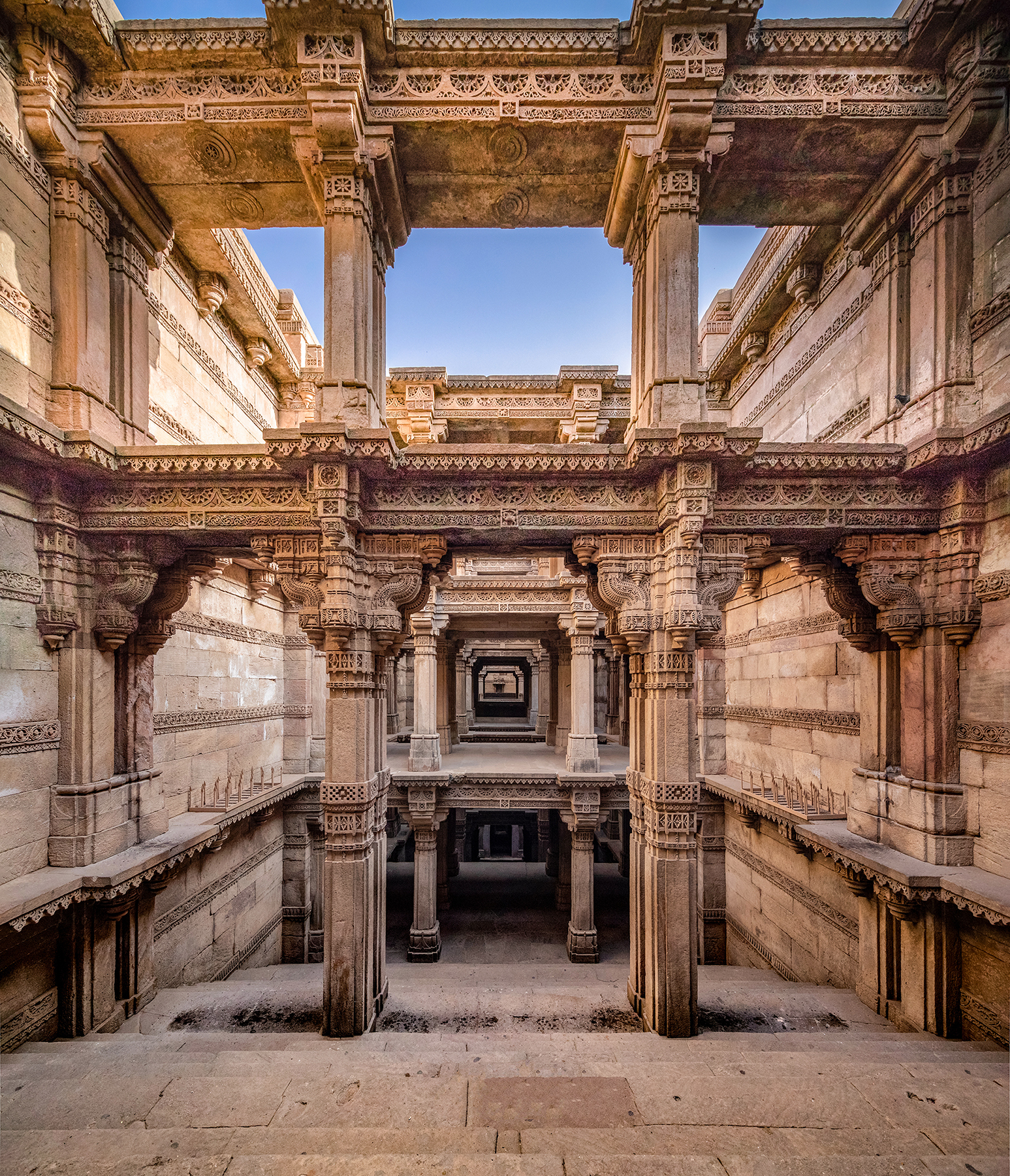 A Vertorama of Adalaj Stepwell showing all the floors in a single frame.